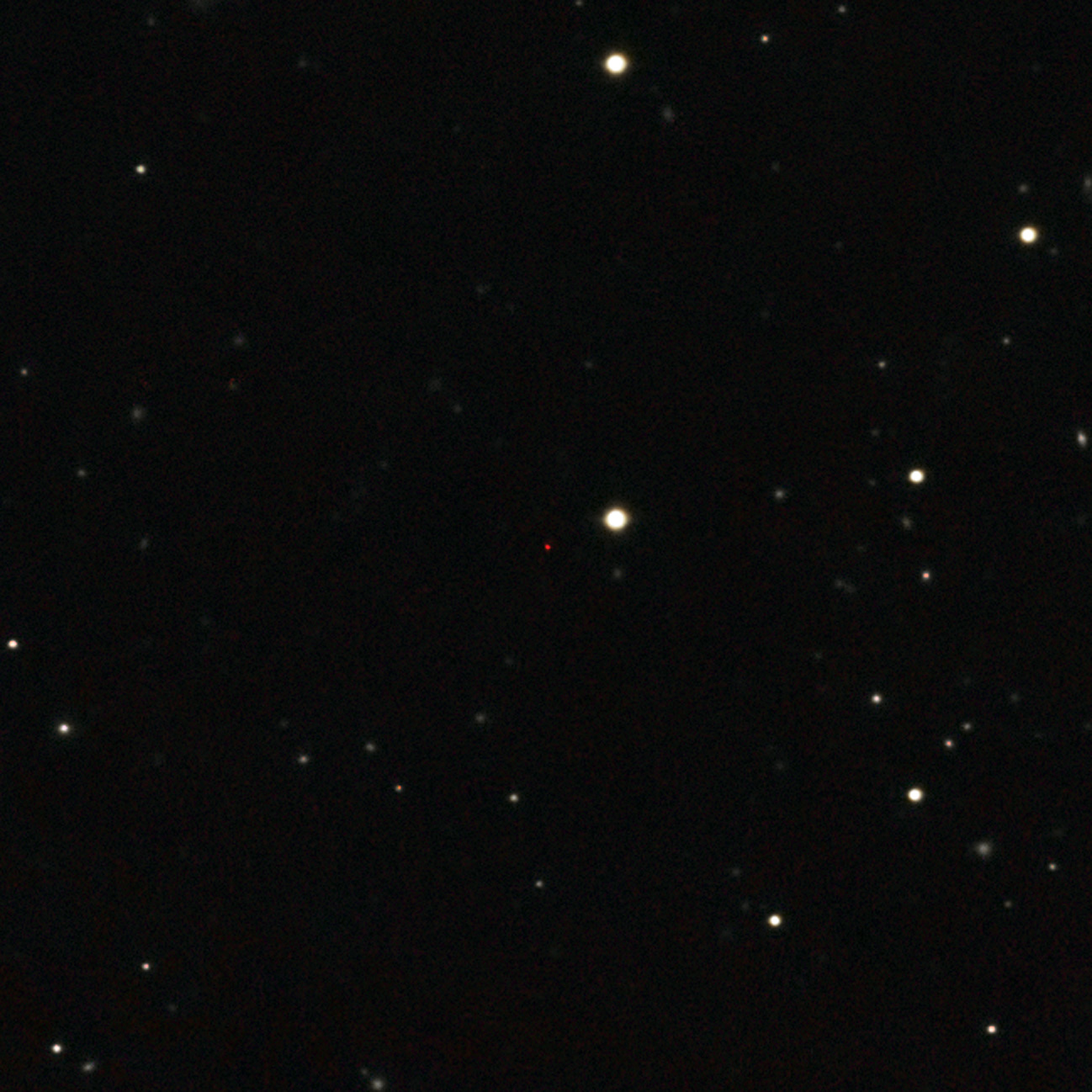 This image of ULAS J1120+0641, a very distant quasar powered by a black hole with a mass two billion times that of the Sun, was created from images taken from surveys made by both the Sloan Digital Sky Survey and the UKIRT Infrared Deep Sky Survey. The quasar appears as a faint red dot close to the centre. This quasar is the most distant yet found and is seen as it was just 770 million years after the Big Bang.